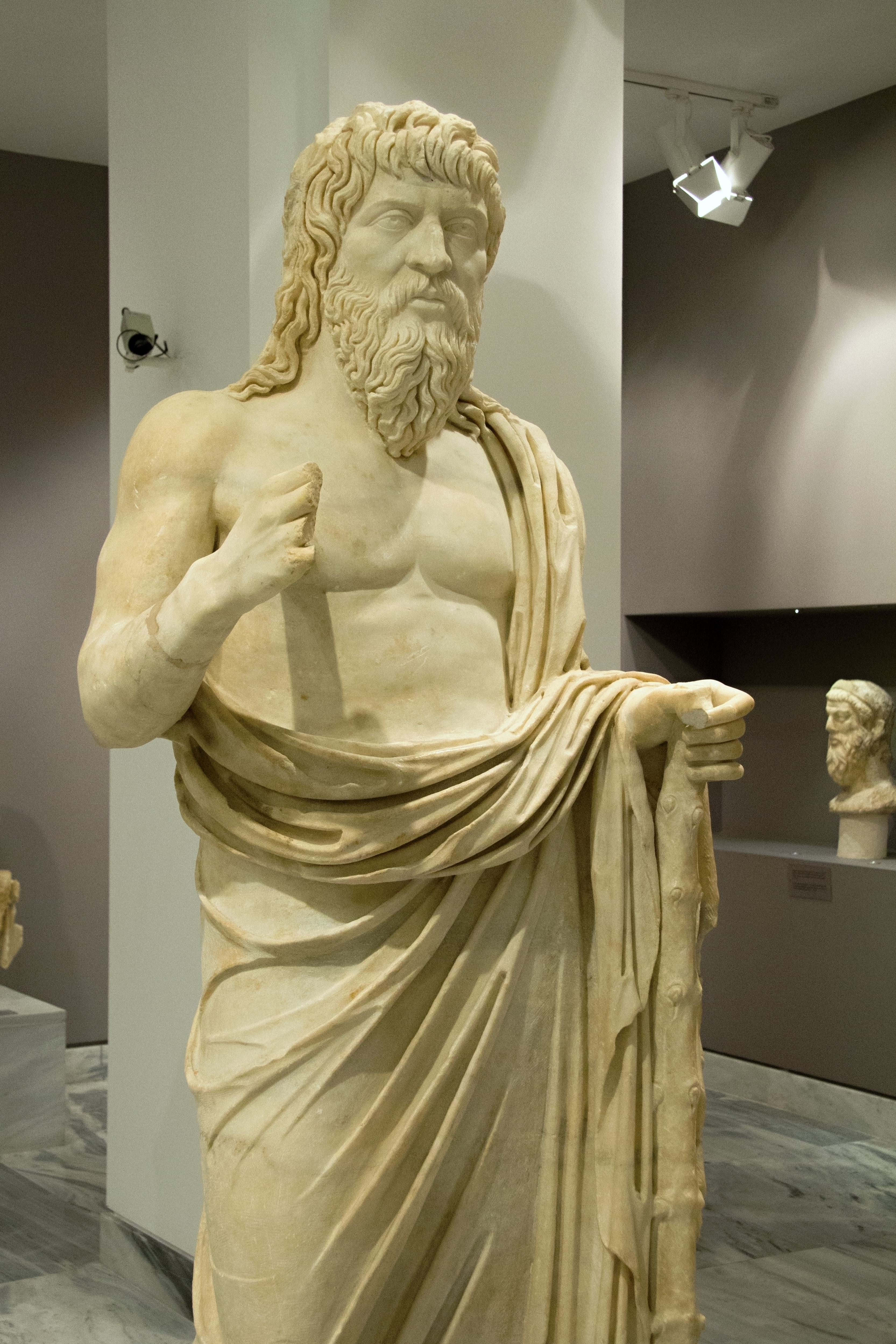 Roman iconographic type for the representation the philosophers, buat the body follows prototypews of the 5th century BC. Probably portrait of the Apollonius of Tyana (orː portrait of Heraclitus of Efesus). Marble, ca 200 AD. Findigs from Gortys. Archaeological museum of Heraklion.